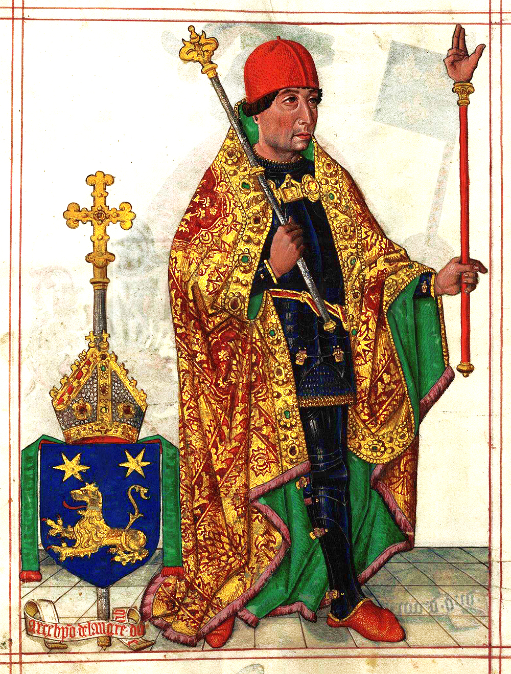 Bishop-Duke of Langres